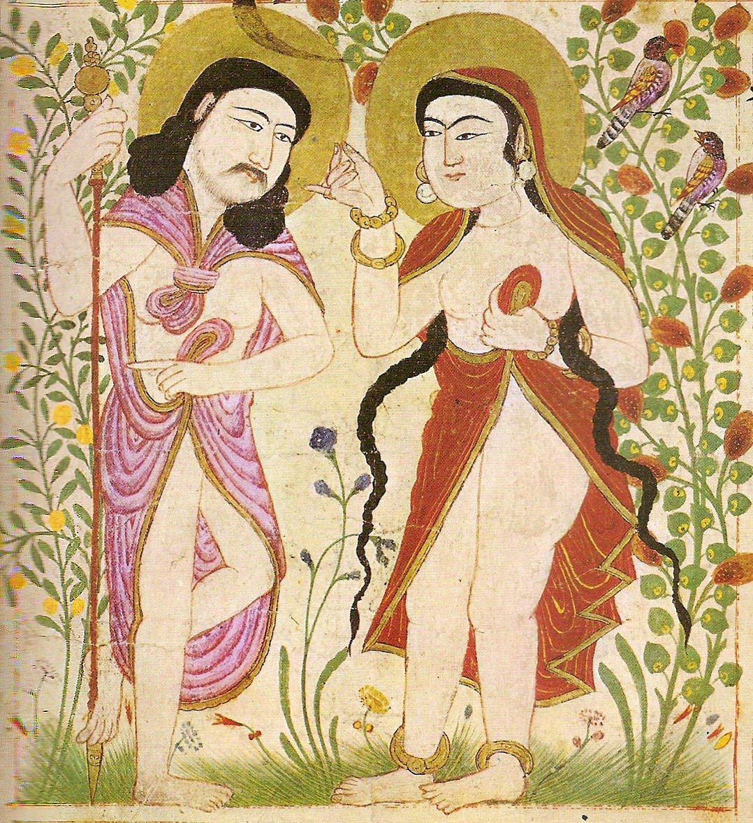 Painting from Manafi al-Hayawan (The Useful Animals), depicting Adam and Eve. From Maragh in Mongolian Iran.